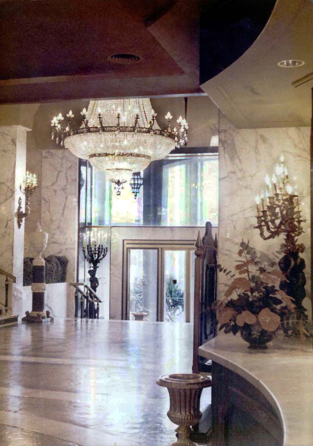 Lobby and entrance of Hotel Doral-on-the-Ocean. This is a digitally restored version of the original image, with the contrast and levels fixed, scuffs and speckles removed, and excessive midtones suppressed.